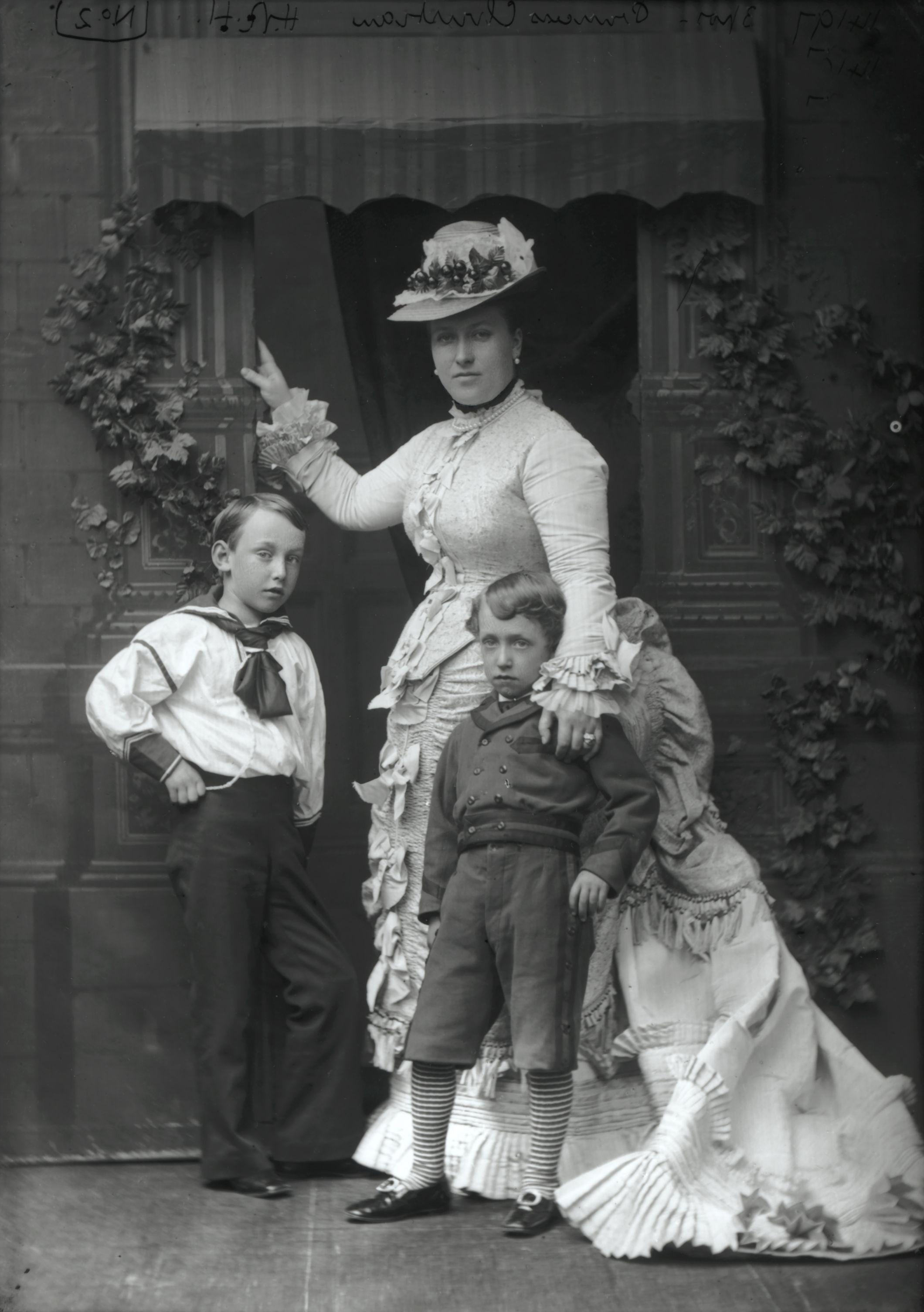 Princess Helena Augusta Victoria of Schleswig-Holstein with her two eldest children, by Alexander Bassano (died 1913). All images in this batch have been confirmed as author died before 1939 according to the official death date listed by the NPG.